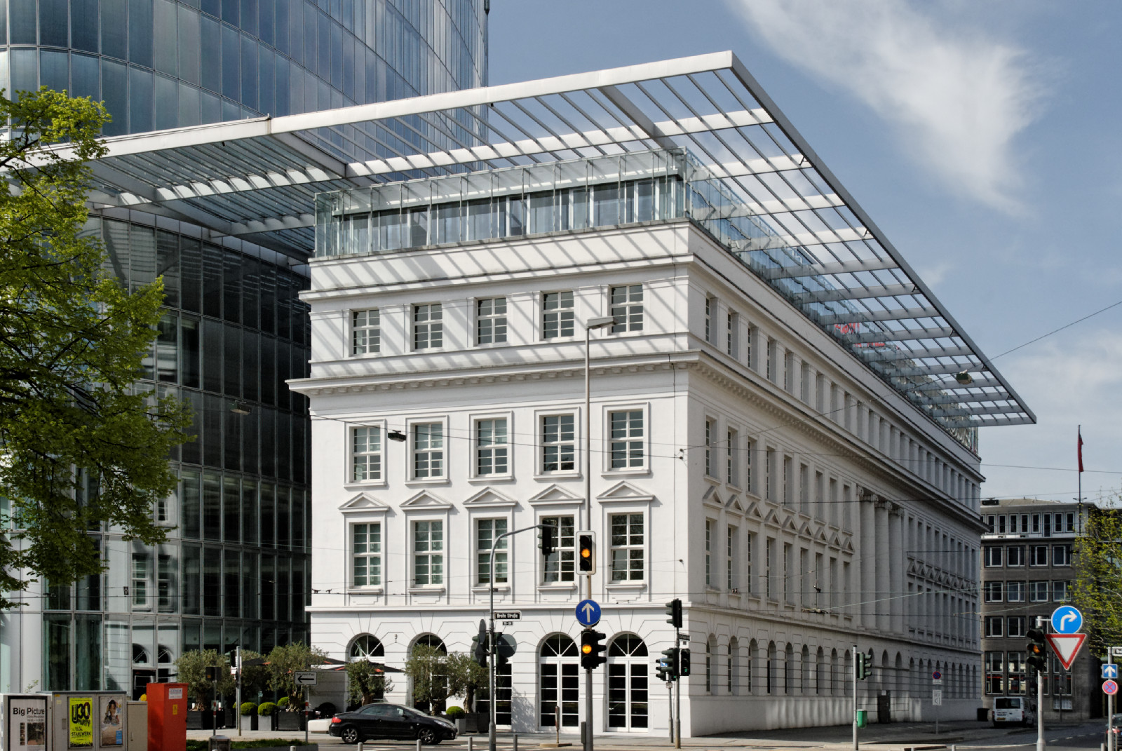 Building Carl-Theodor-Straße 1 in Düsseldorf-Stadtmitte, Germany